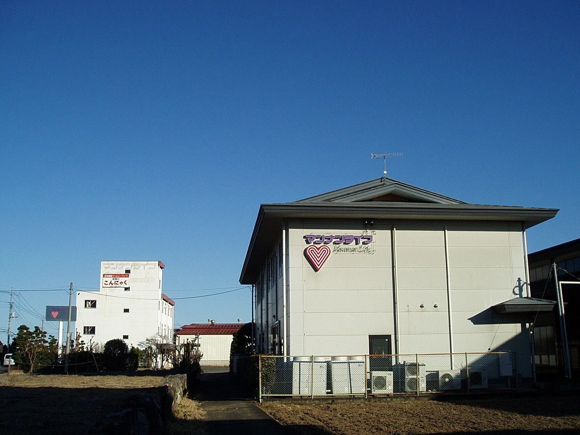 The headquarters of MannanLife Co., Ltd., a konjac food company, located in Tomioka, Gunma, Japan.